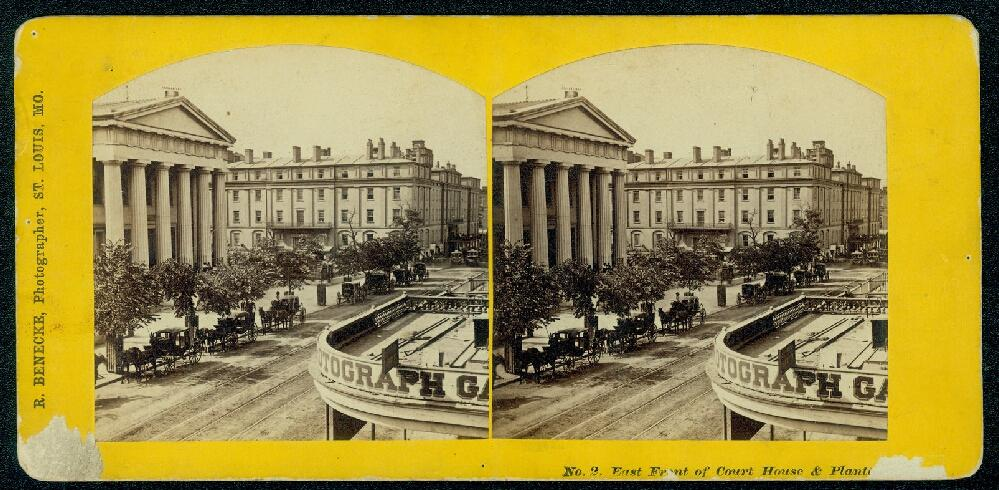 "East front of Court House and Planter's House." Stereograph by Robert Benecke, 1870. Missouri History Museum Photograph and Prints Collections. St. Louis and Missouri Stereographs. n22438. {"subject_uri":"http:\/\/collections.mohistory.org\/resource\/22579","local_id":"38807"}